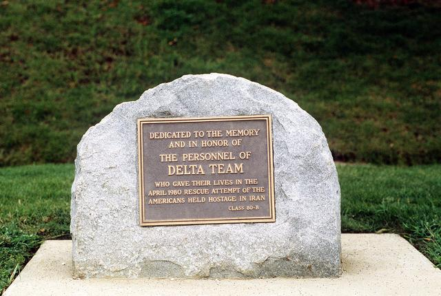 Monument to the members of Delta Team who were killed in the 1980 attempt to rescue Americans held hostage in Iran.